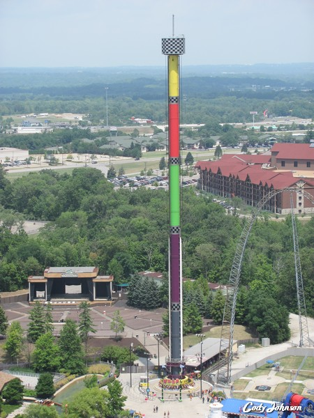 Drop Tower, Kings Island.